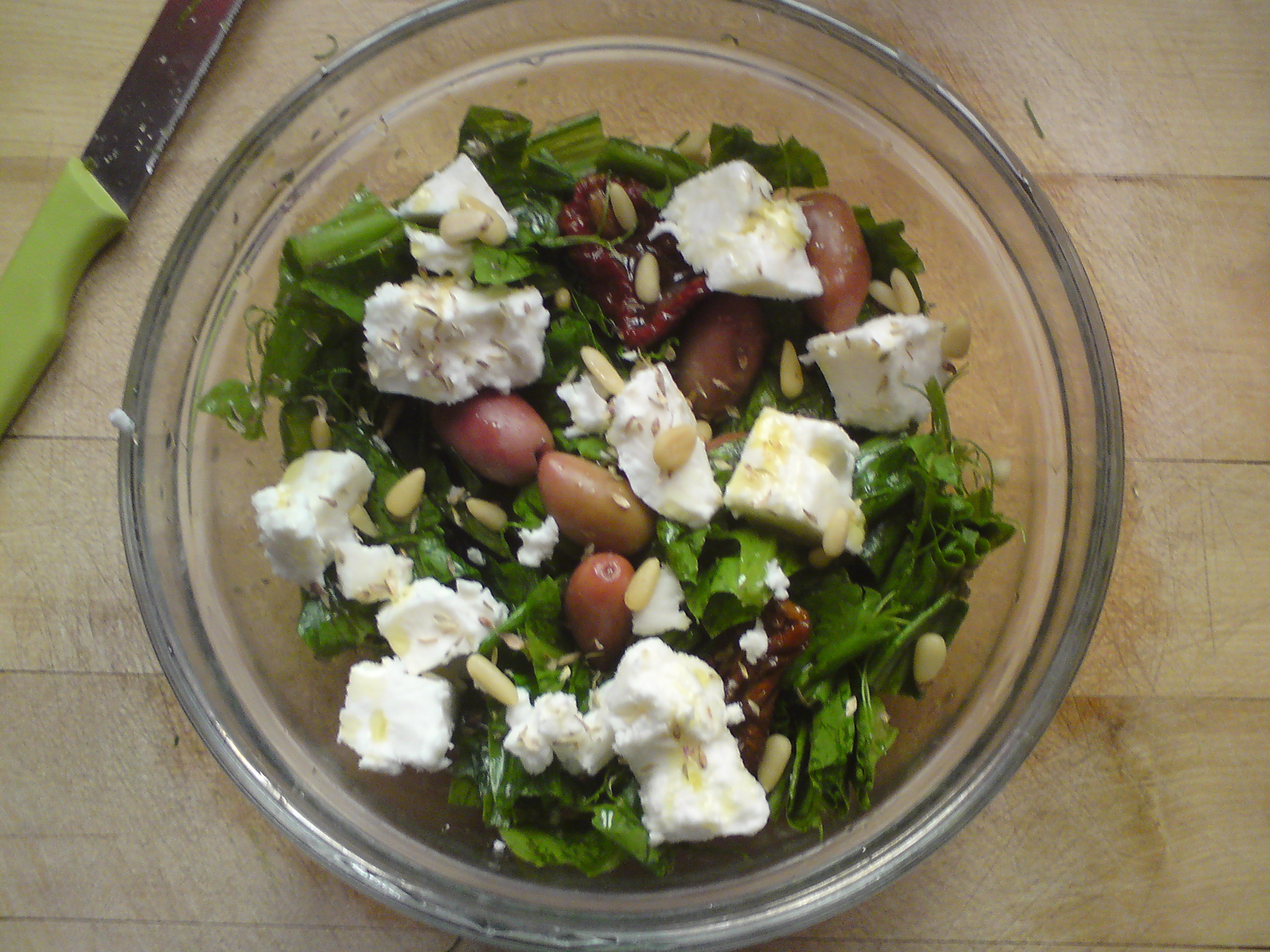 Salad made from fresh greens (local name "pissara" in Kefalonia), sun-dried tomato, feta and pine-nuts.